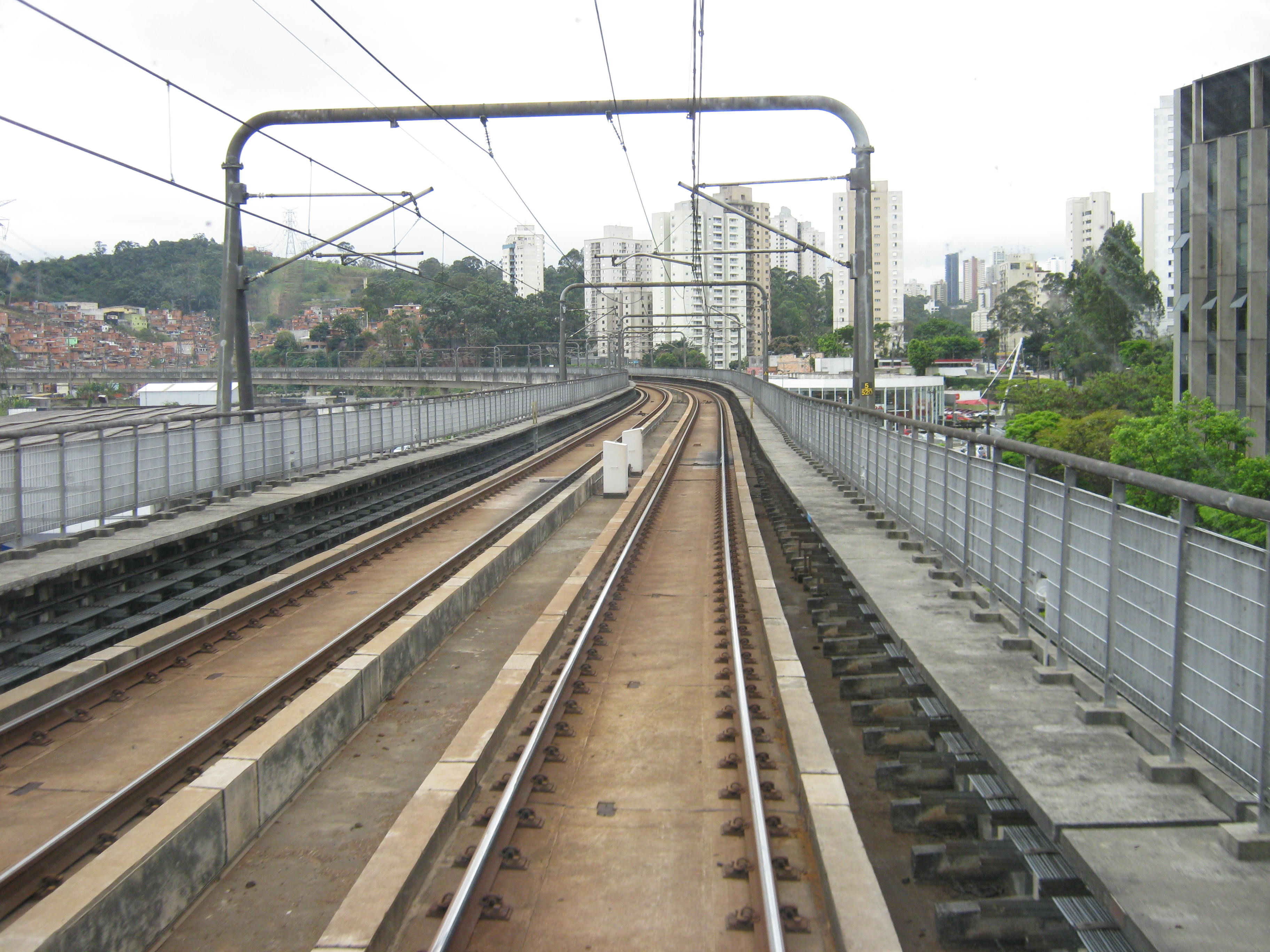 Visão dos trilhos no Metrô de São Paulo